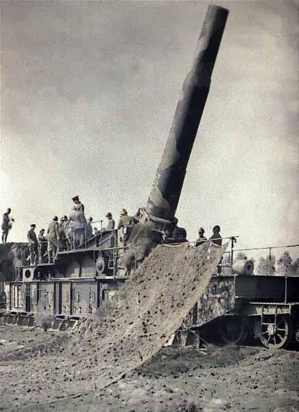 French soldiers camouflaging a 370 mm railway howitzer. Autochrome colour picture made by an official photographer of the French army on September 5th, 1917, near the village of Heenkerke in Flanders, Belgium. See also File:Działo francuskie z I wojny światowej.jpg